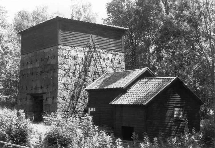 Photo by Harri Blomberg.